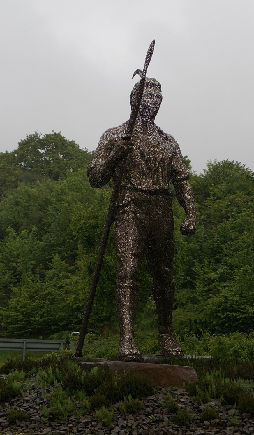 The Chartist Statue on the A4048 at Blackwood